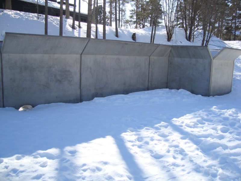 Umeå sculpture park/Sweden with "Concrete and leaves" (1996) by Mirosław Bałka.